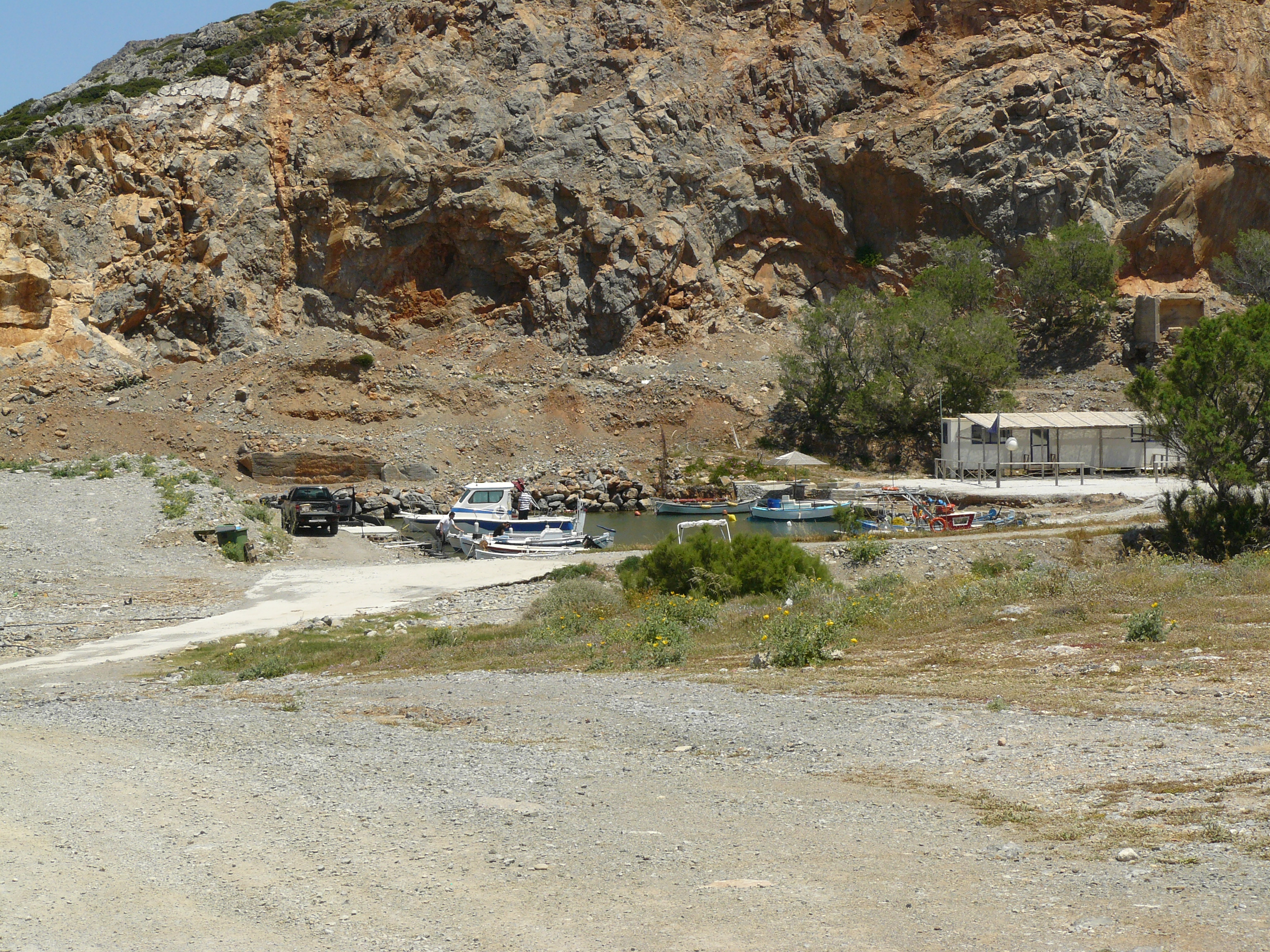 New habour of Pachia Ammos, Lasithi, Crete.